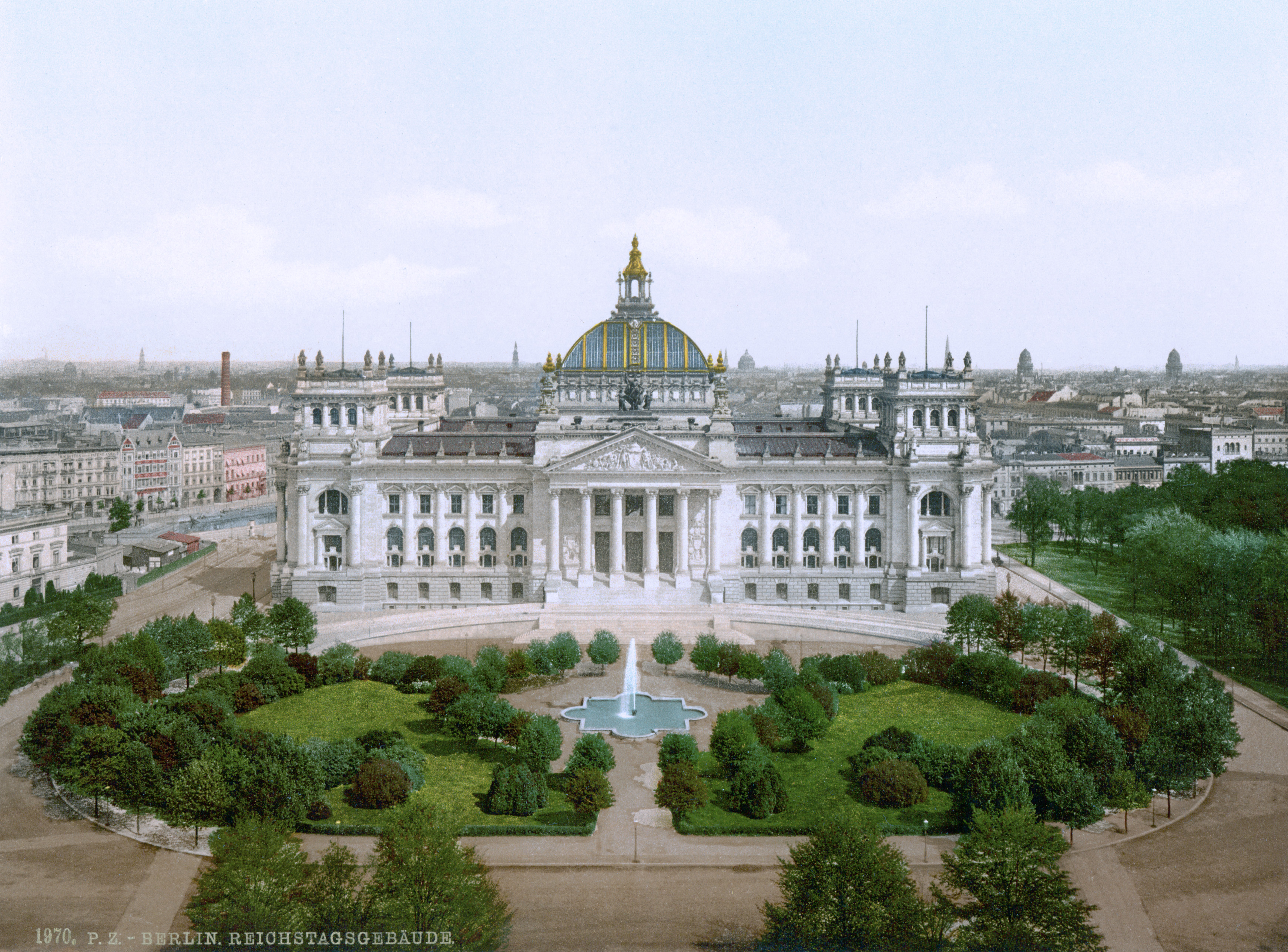 Berlin (Germany) - the Reichstag